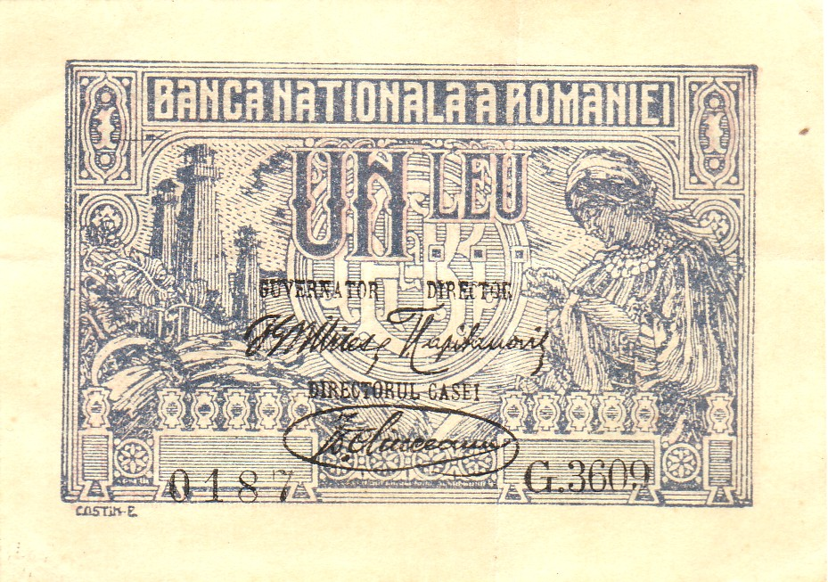 1 Romanian leu from 1920 - obverse